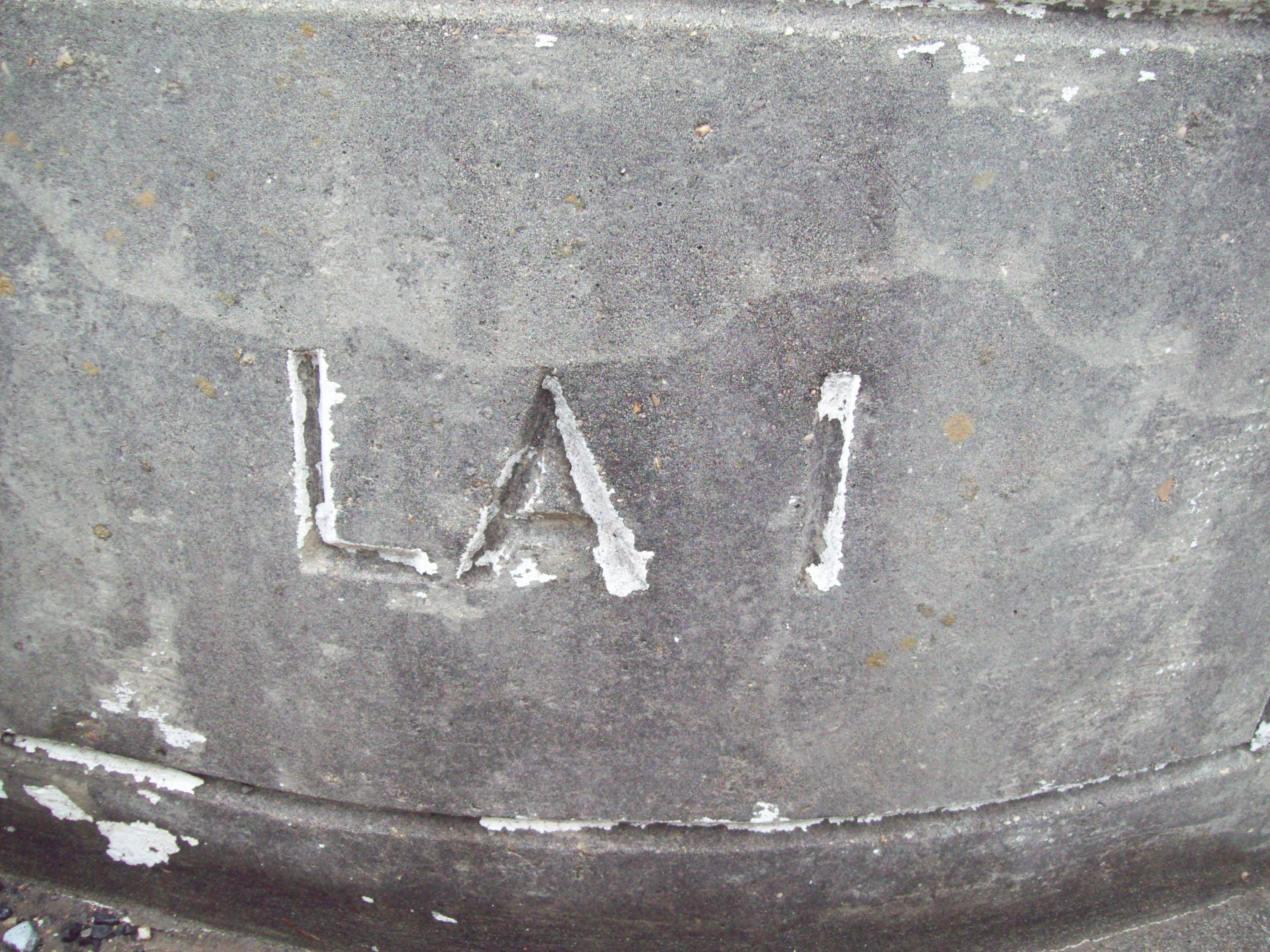 Louisiana bridge endcap stamped with LA 1 on old State Route 1 (Jefferson Highway).